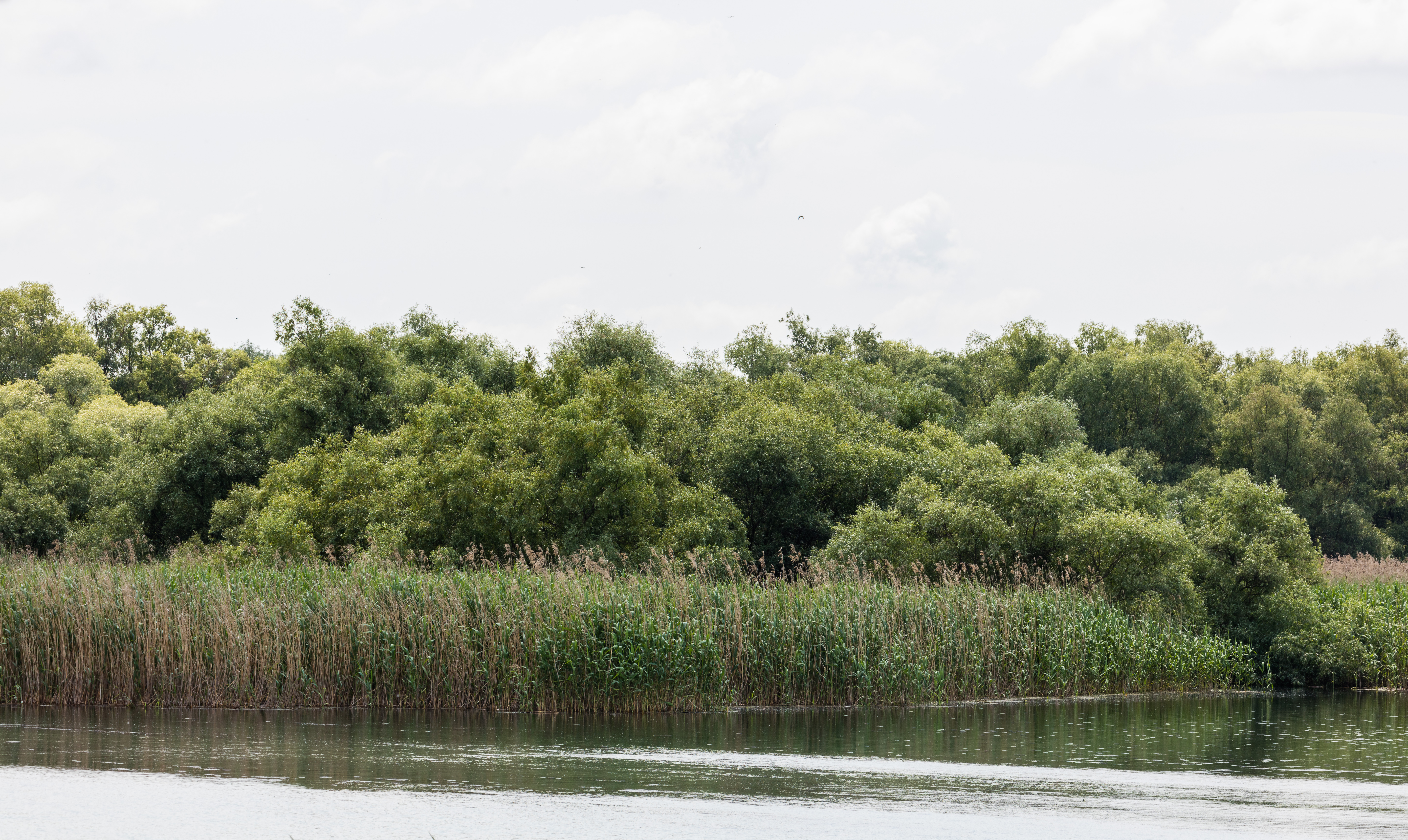 Reeds (Phragmites australis), Danube Delta, Romania